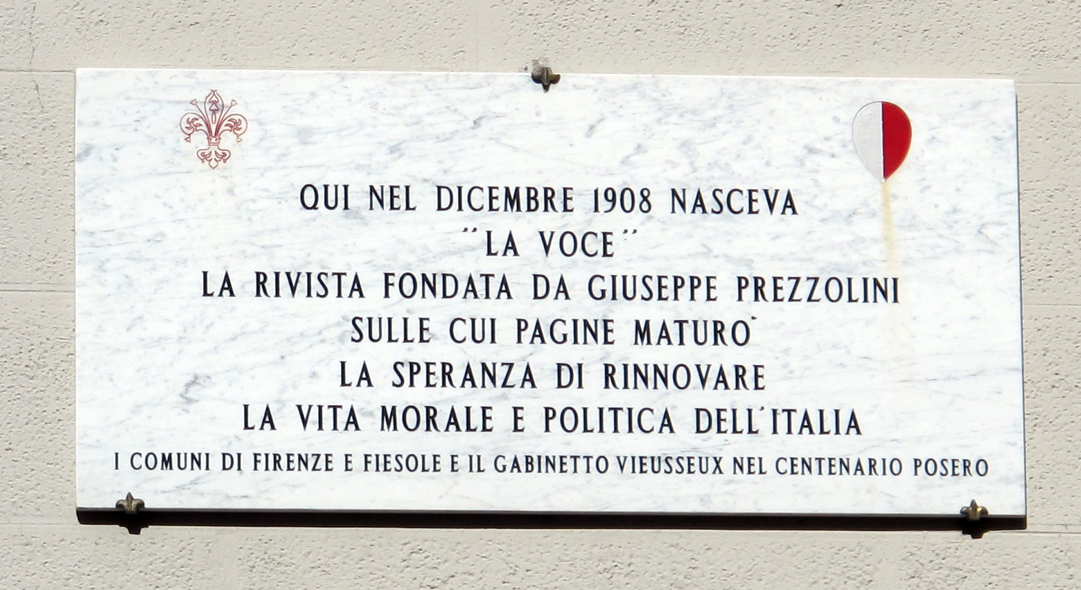 Florence, Italy (see filename)